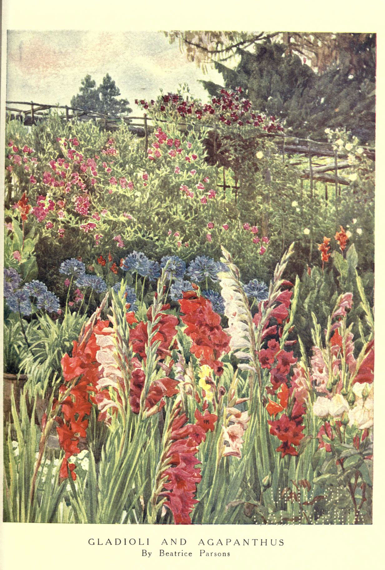 Gladioli and Agapanthus by Beatrice Emma Parsons plate 4 Beautiful flowers and how to grow them Edinburgh,T.C. & E.C. Jack, ltd.,1922.